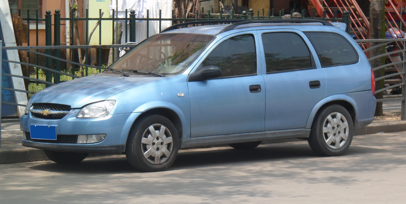 Chevrolet Sail Wagon photographed in Shanghai, China.